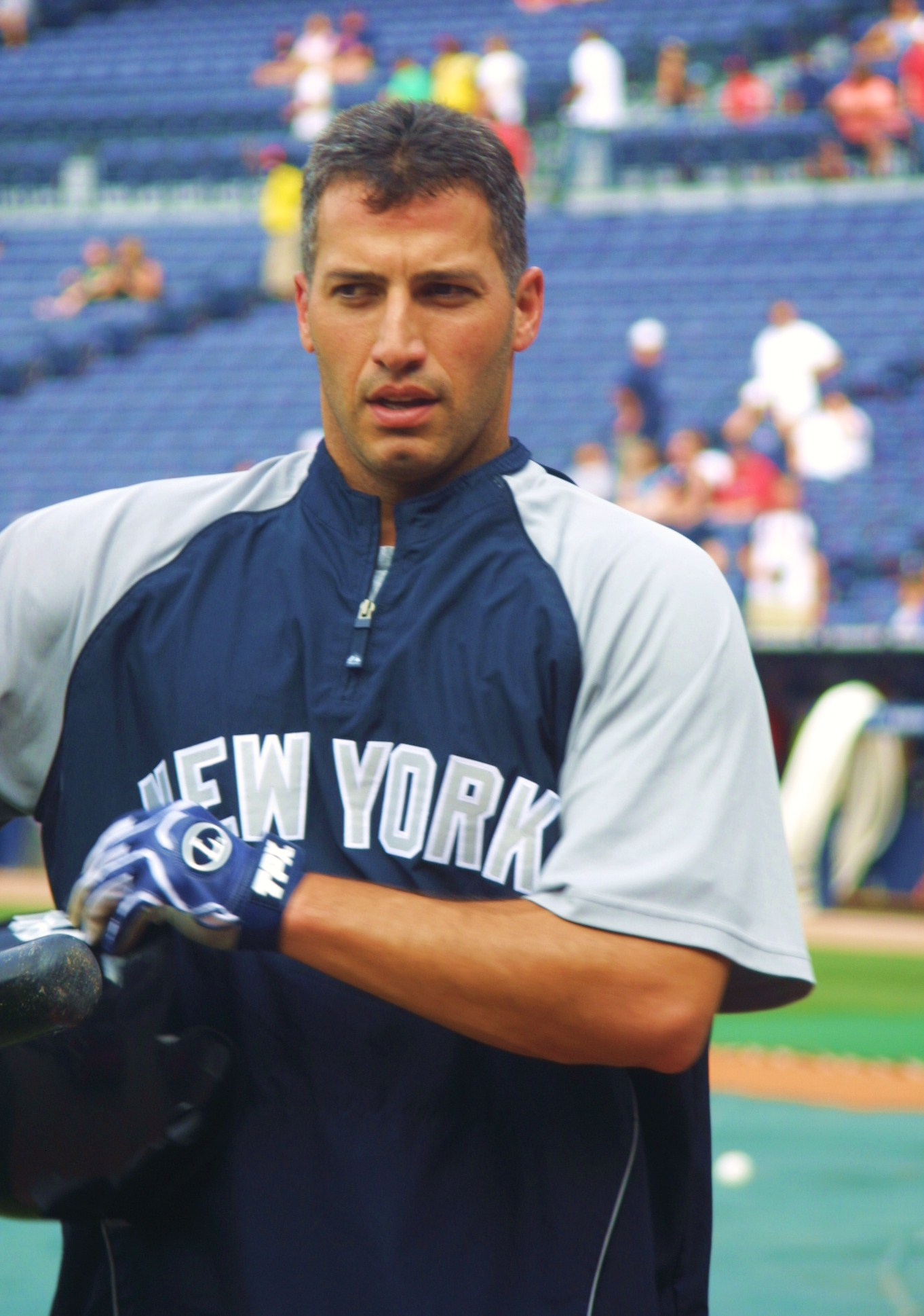 Andy Pettitte